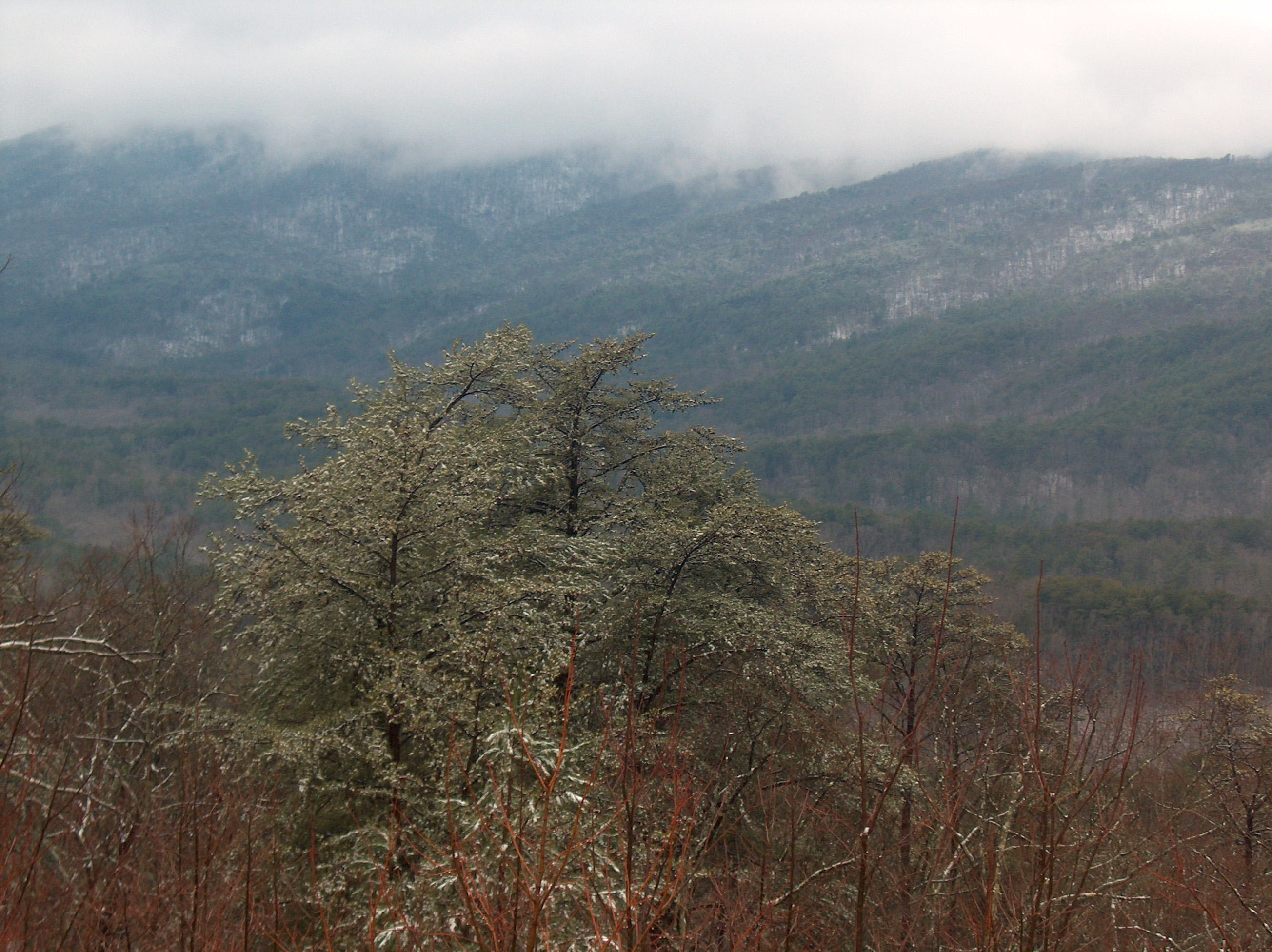 Mount Cheaha, the highest point in Alabama, United States